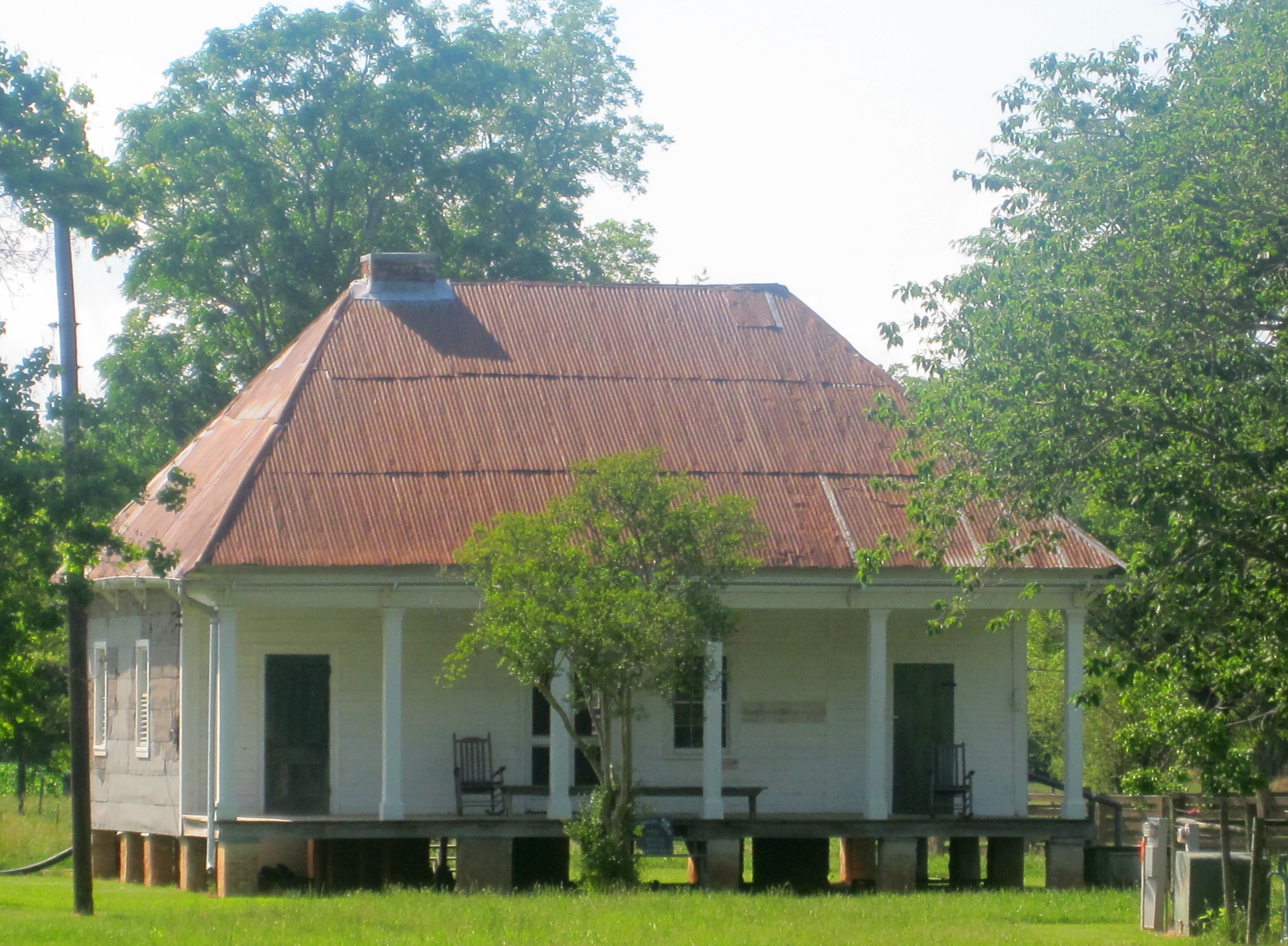 Overseer's house at Oakland Plantation — on Route 494, in Bermuda near Natchitoches, in Natchitoches Parish, Louisiana. Within the NPS Cane River National Heritage Area. Image: HABS—Historic American Buildings Survey of Louisiana. Credits I took photo with Canon camera.